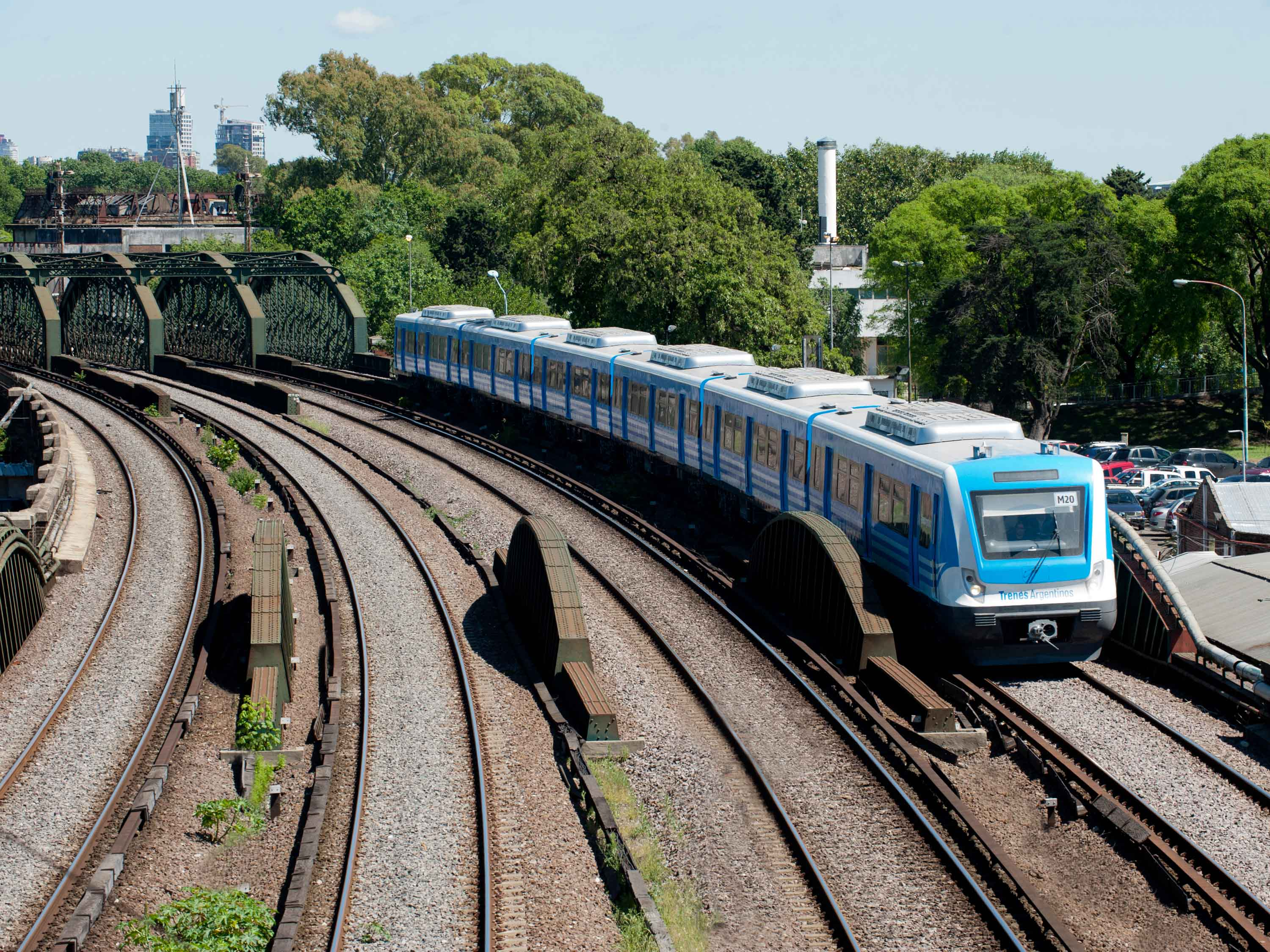 A CSR EMU on the Mitre Line in northern Buenos Aires.